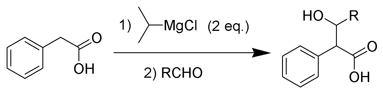 Description: Reaction scheme of the Ivanov reaction. Author, date of creation: selfmade by ~K, 01 April 2006. Source: - Copyright: Public domain. (PD) Comments: high-resolution b/w PNG; ChemDraw / The GIMP.